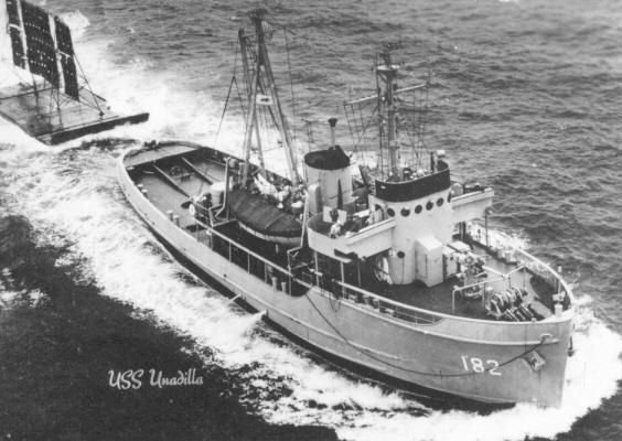 USS Unadilla (ATA-182) underway while towing a target sled, date and location unknown